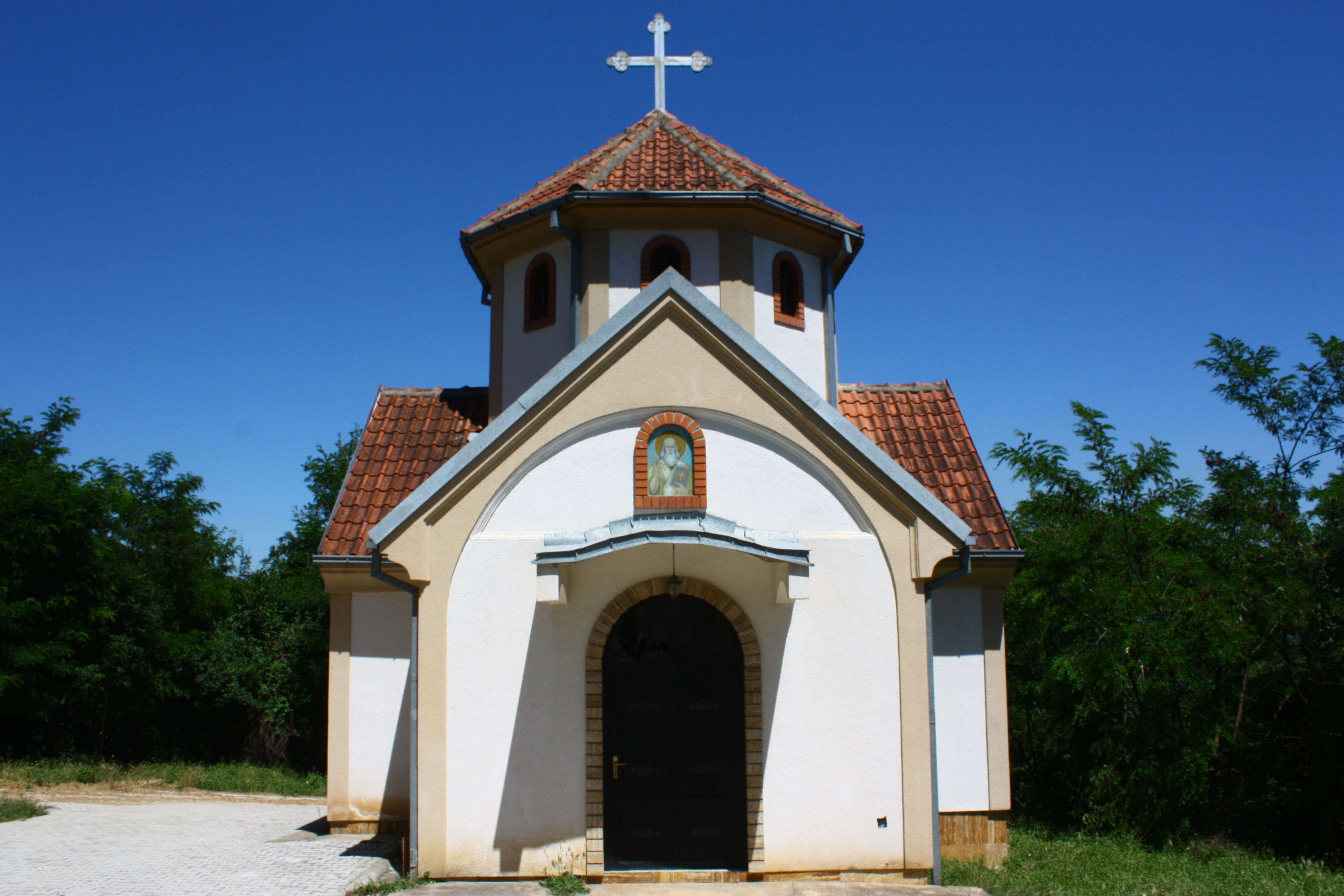 St. Athanasius Church in Džepčište near Tetovo in Macedonia